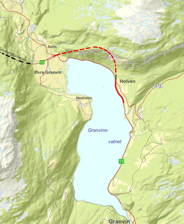 Jobergtunnelen on road 13 at Granvin lake. Map by Statens vegvesen